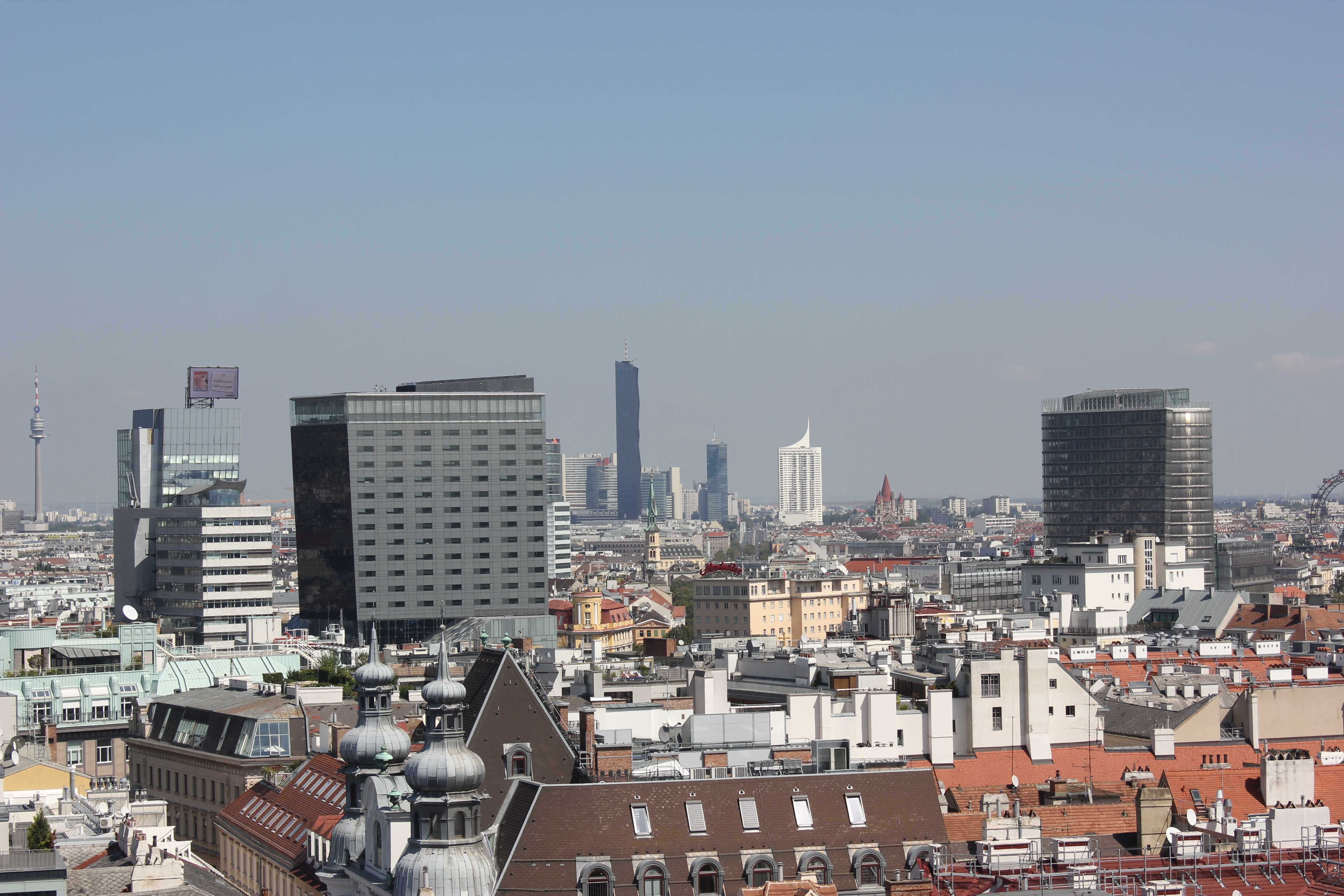 Vienna - view from the north tower of the St. Stephen's cathedral